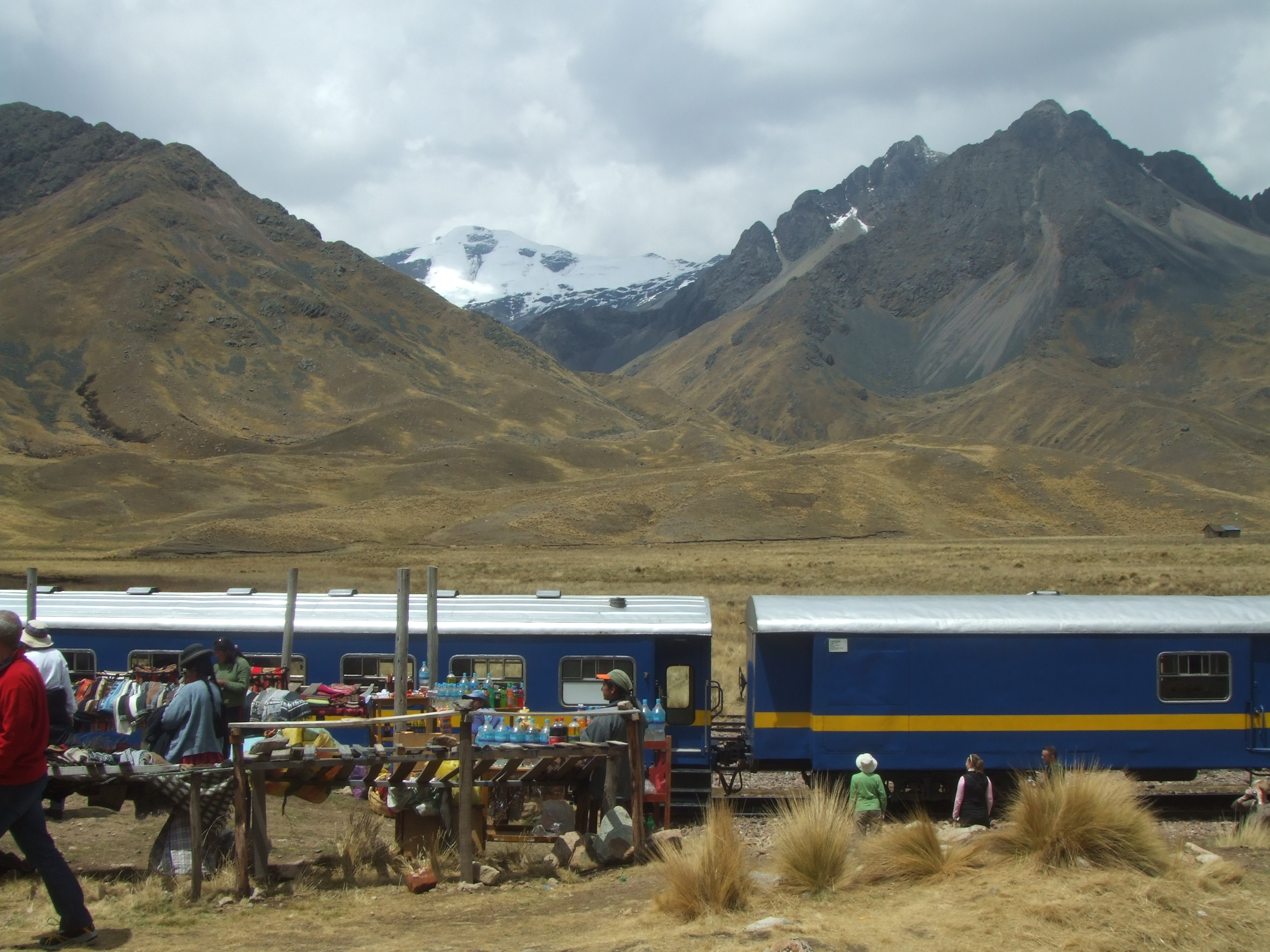 "The Andean" at La Raya Station with market stalls, 10/07.